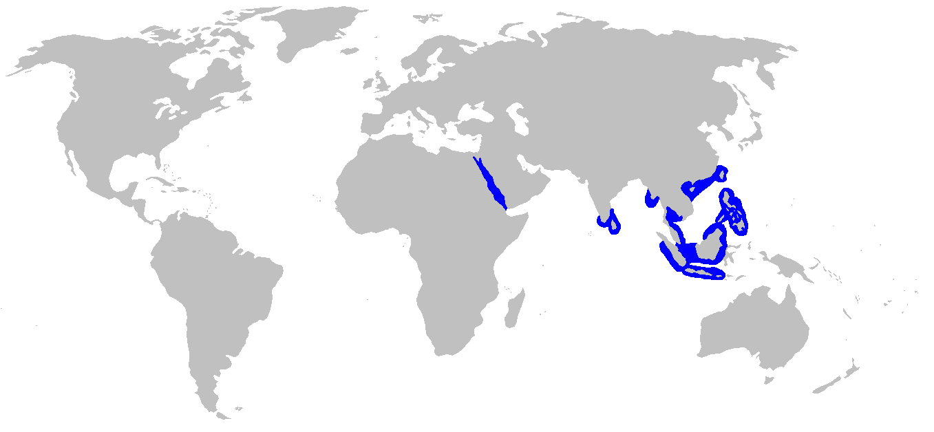 Distribution map for Hemigaleus microstoma